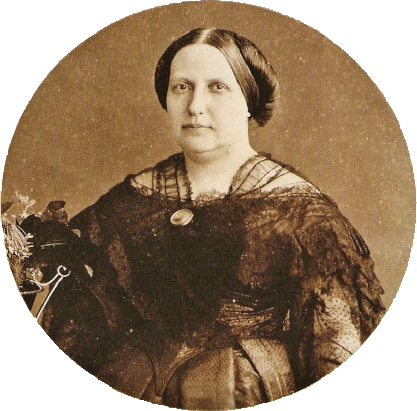 Brazilian Empress Teresa Cristina, c.1865.